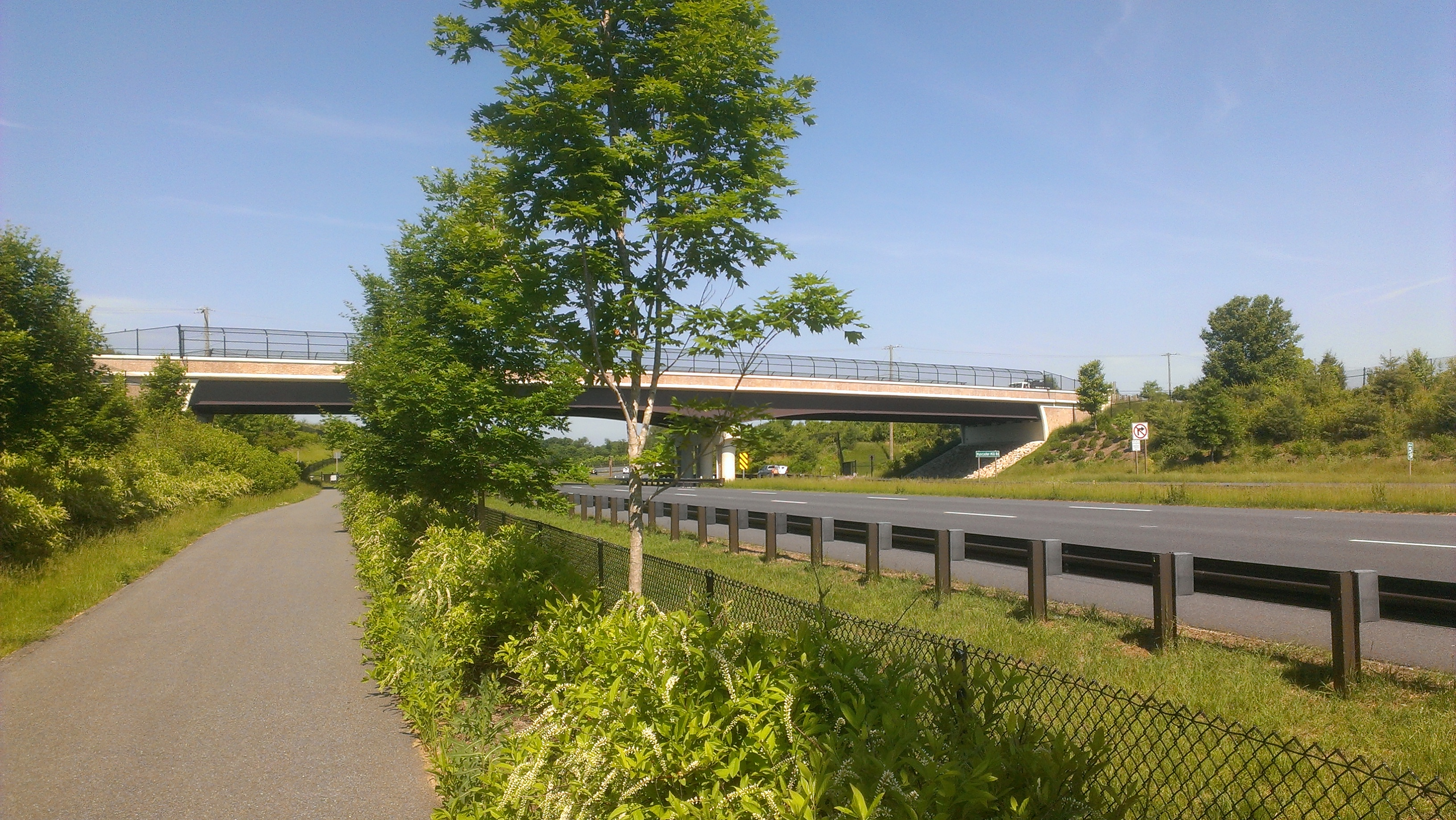 A view of the ICC Trail running alongside the Maryland Route 200 freeway (to the right) at the Muncaster Mill Road overpass.